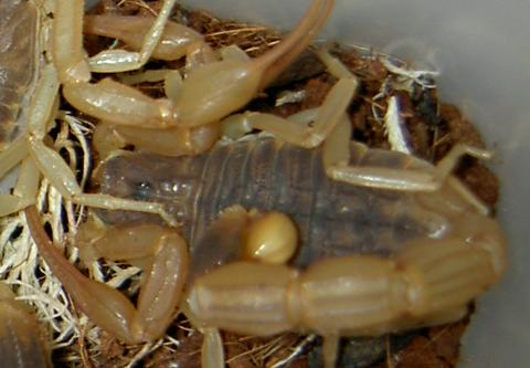 Mesobuthus martensii